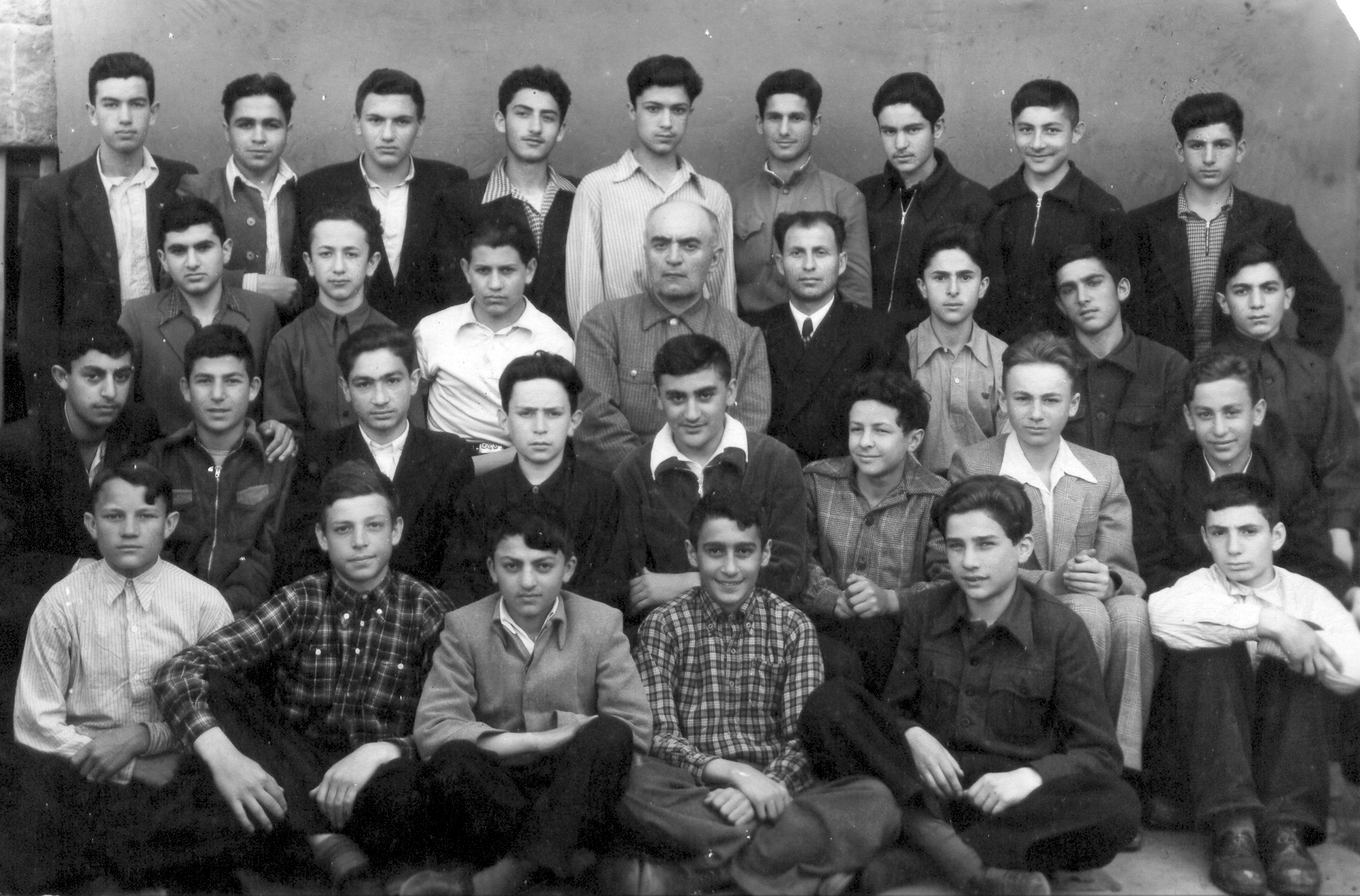 Edvard Chubaryan 75th Birthday, 05 May 2011 05, No. 19